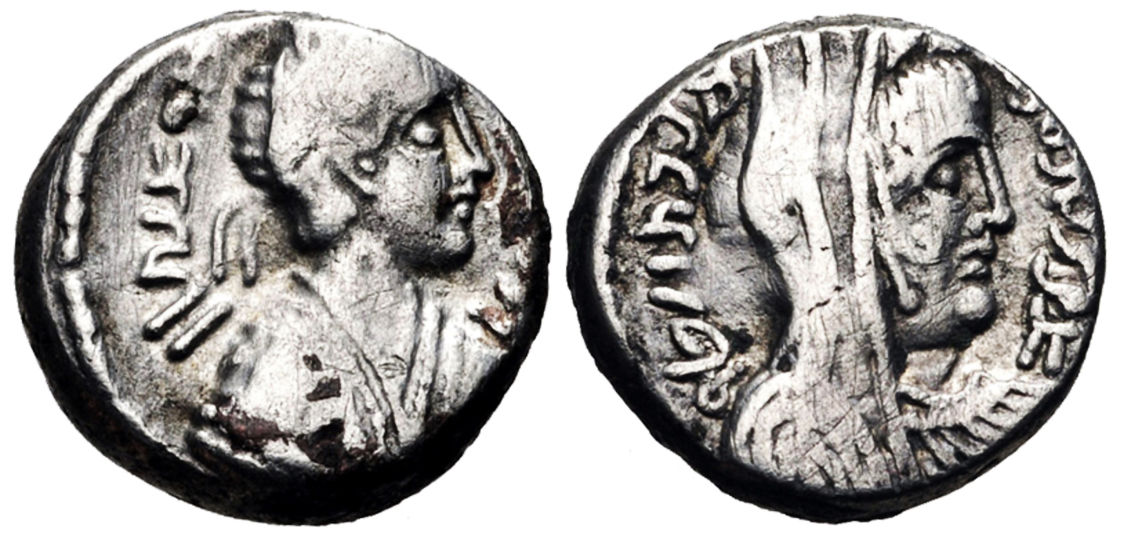 Silver drachm of Rabbel II with Shaqilat from 72 AD (14 mm, 3.56 g)